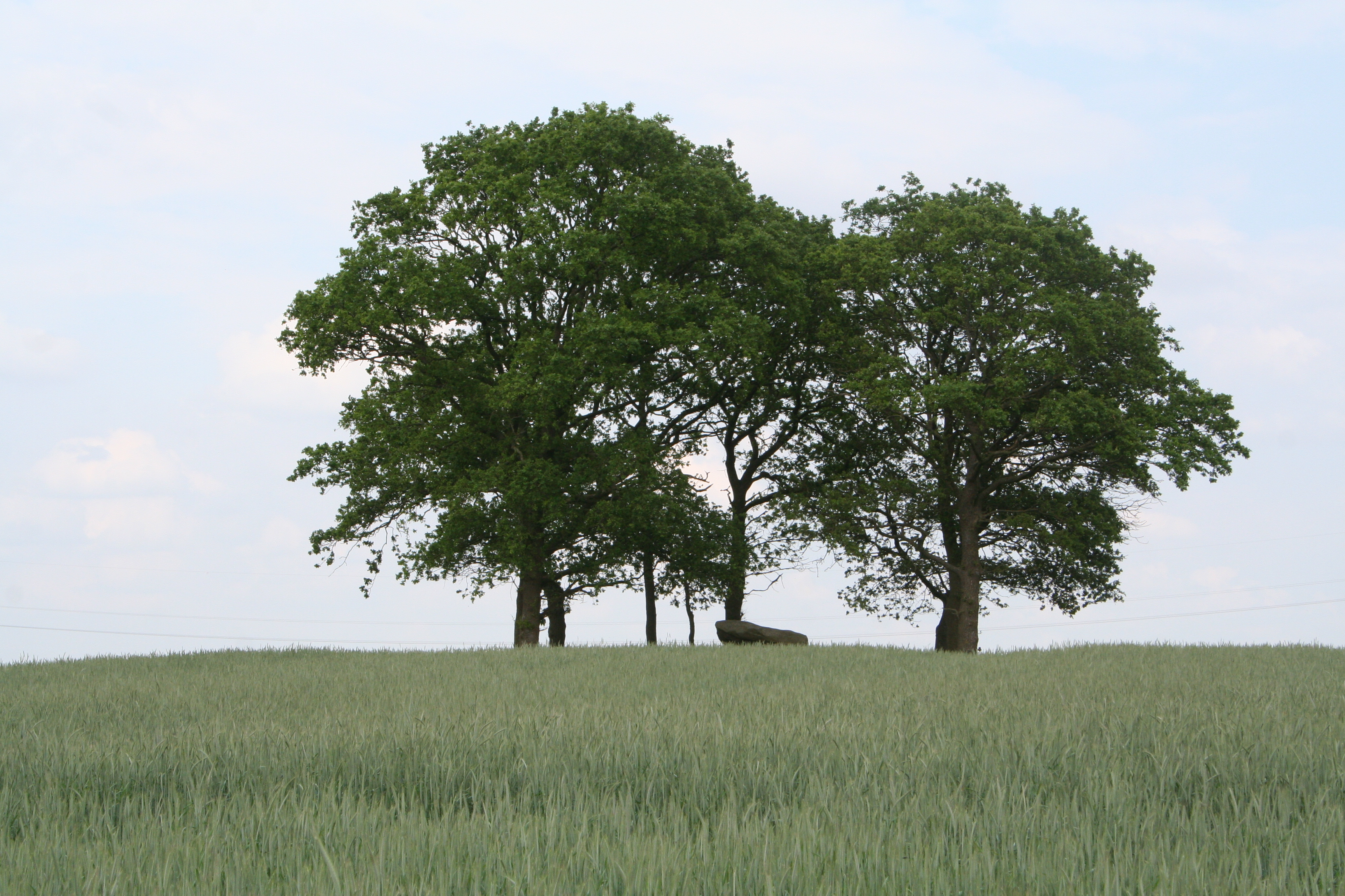 Megalithic tomb Großenhain